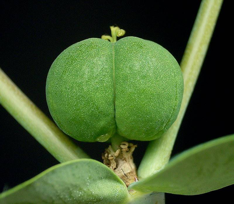 Euphorbia lathyris